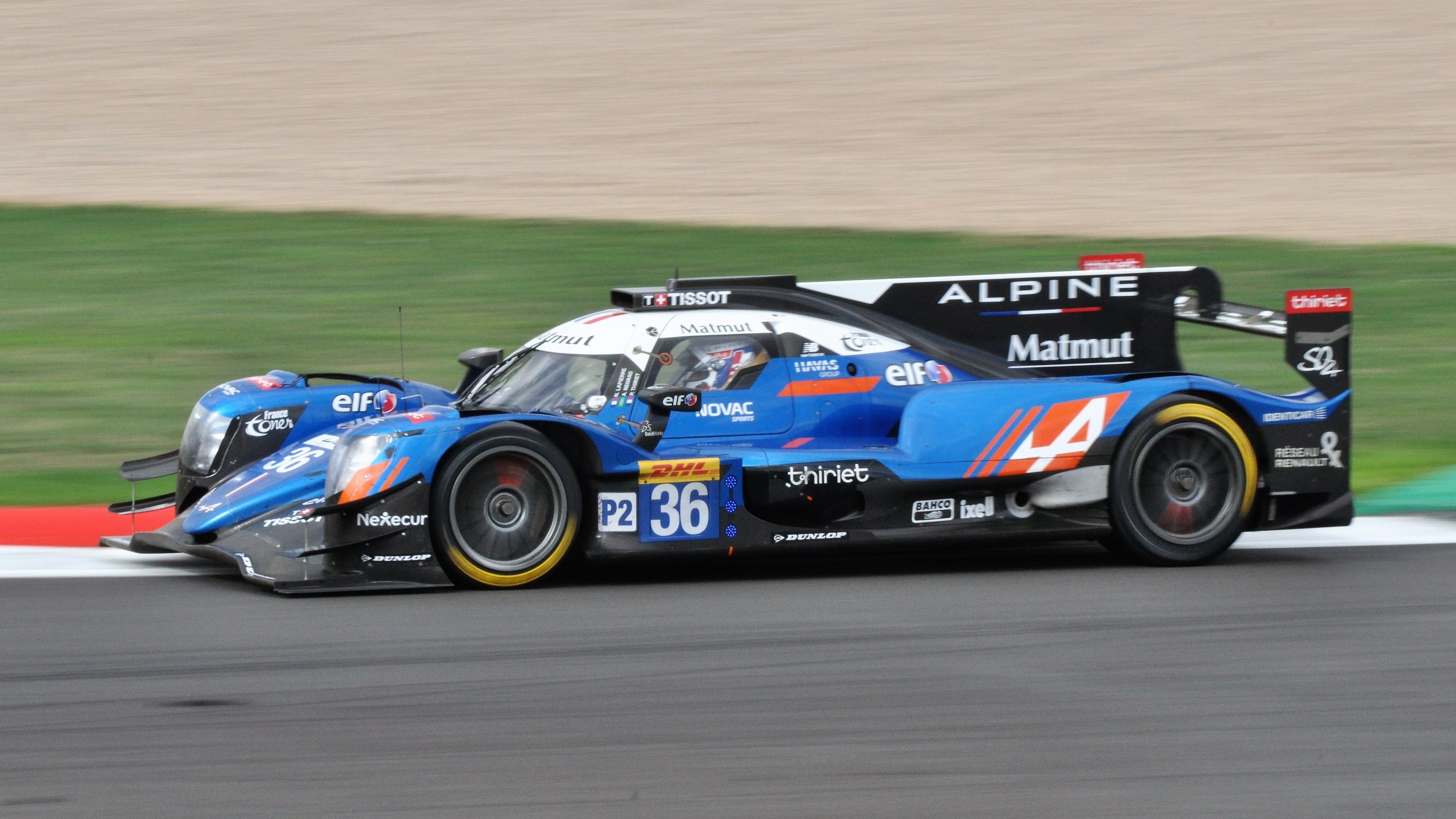 French driver Nicolas Lapierre guides the number 36 Signatech-entered Alpine A470 car around Club corner during the 2018 6 Hours of Silverstone race. Lapierre and his co-drivers, André Negrão and Pierre Thiriet, eventually finished third in the LMP2 class.